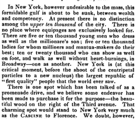 Paragraph in which American writer Nathaniel Parker Willis (1807-1867) coined the phrase "upper ten thousand". Reprinted in Dashes at Life with a Free Pencil, New York: J. S. Redfield, 1845 (third edition): p. 161.